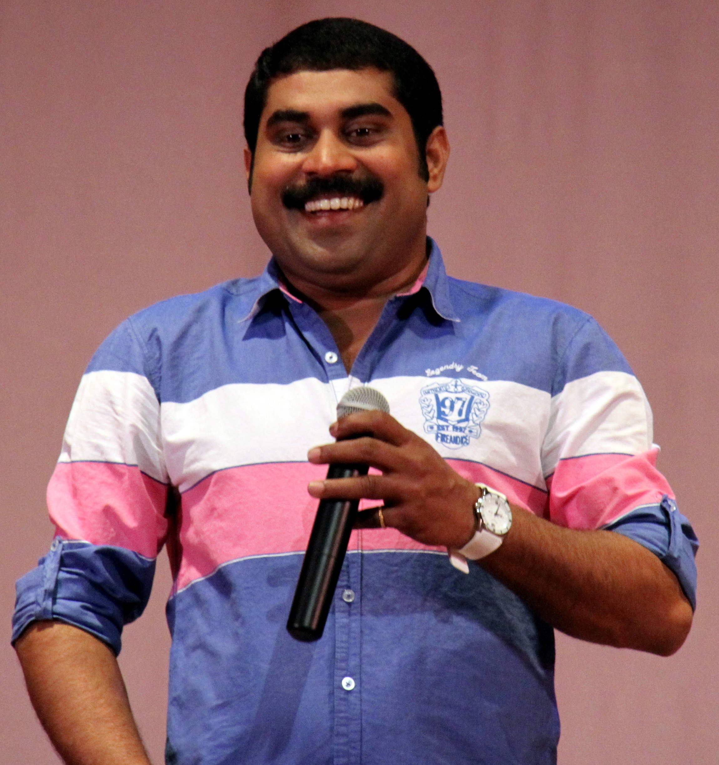 Suraj Venjaramoodu